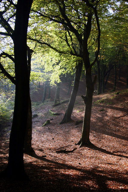 Woodland in Tandle Hill County Park, Royton, Greater Manchester, England.